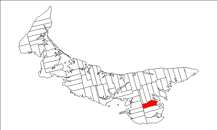 Public domain map of Prince Edward Island created by User:Plasma east with data courtesy of Geogratis, modified to show townships. Released under GFDL (self).